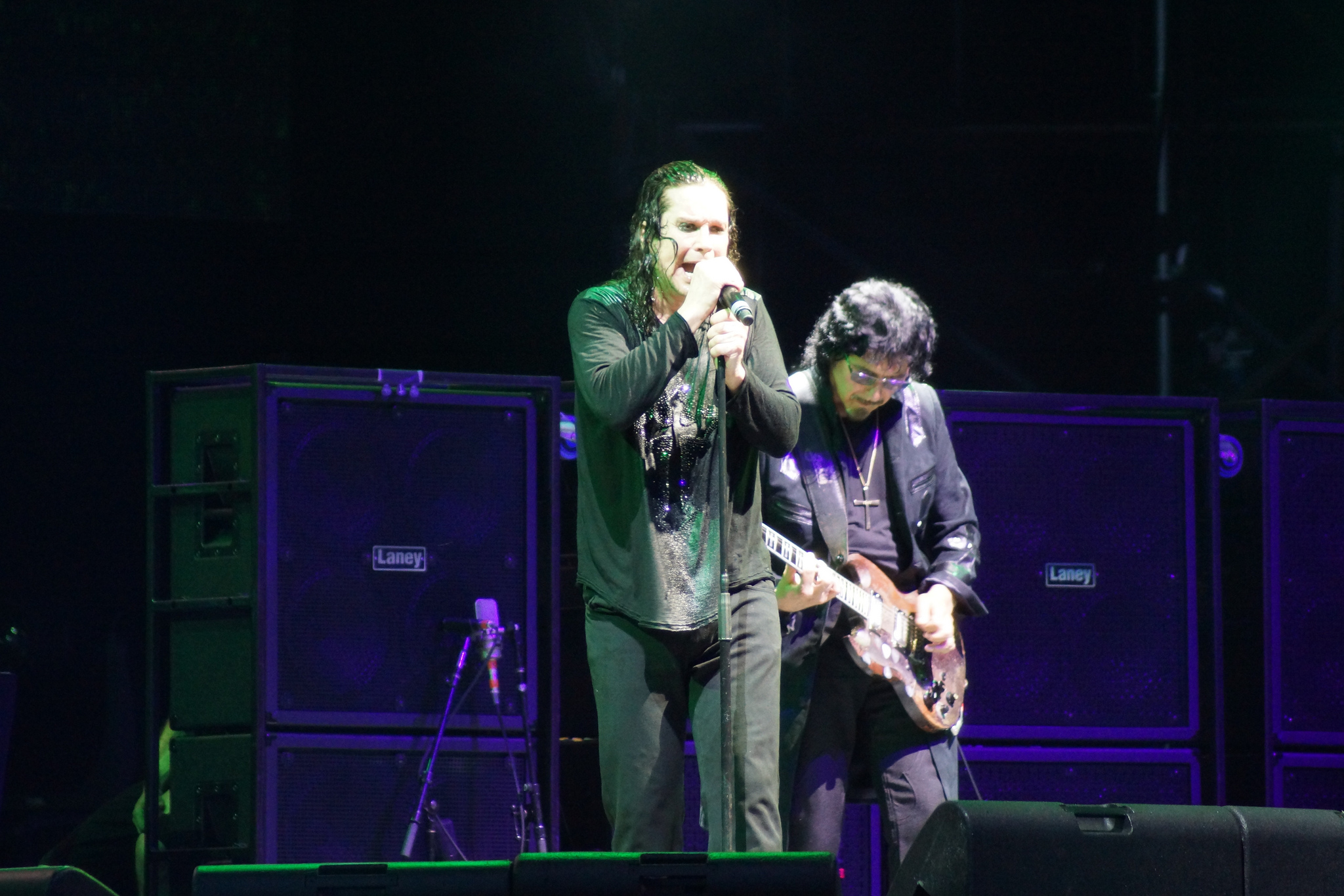 Ozzy Osbourne and Tony Iommi of Black Sabbath performing at Lollapalooza on 3 August 2012.